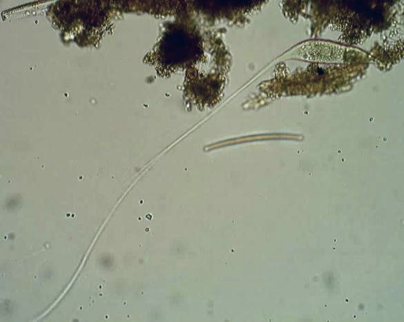 Ciliate protist lacrymaria olor